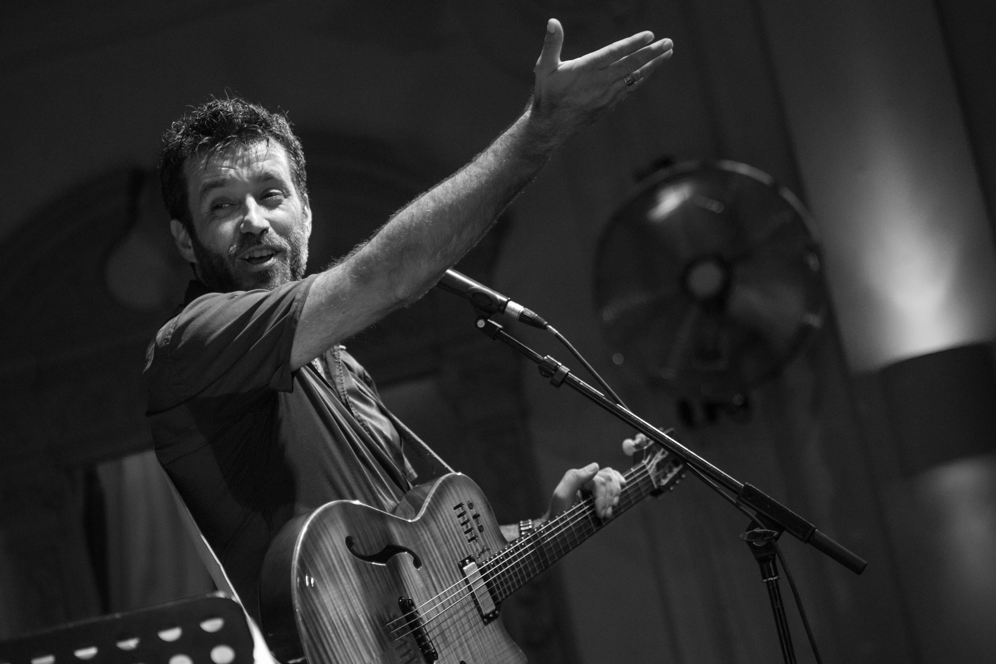 Fabi Silvestri Gazzè live at Bush Hall, London 01/10/2014